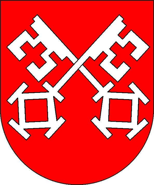 coats of arms of the prince-bishop of Minden